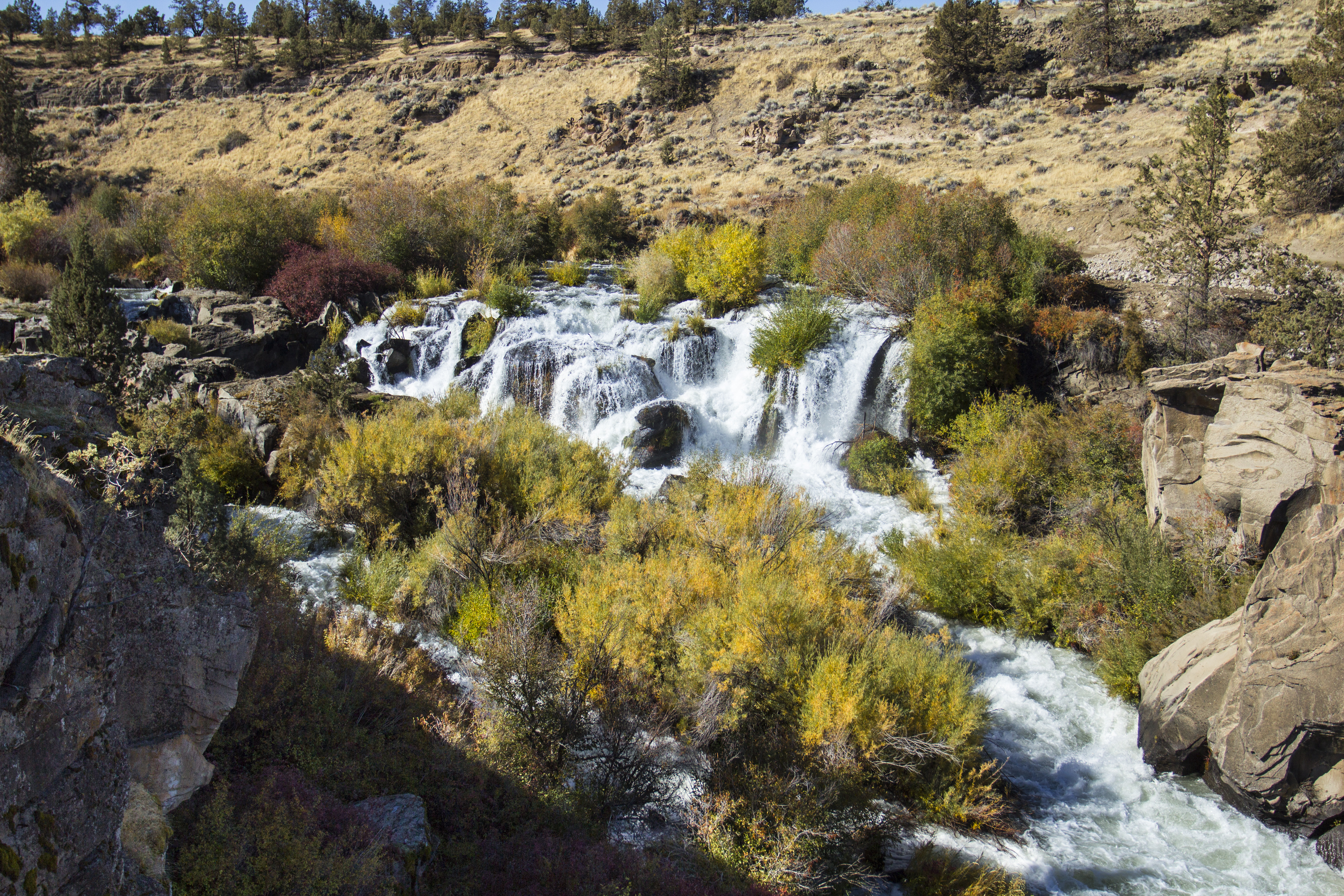 Cline Falls in the Deschutes River Canyon near Redmond, Oregon